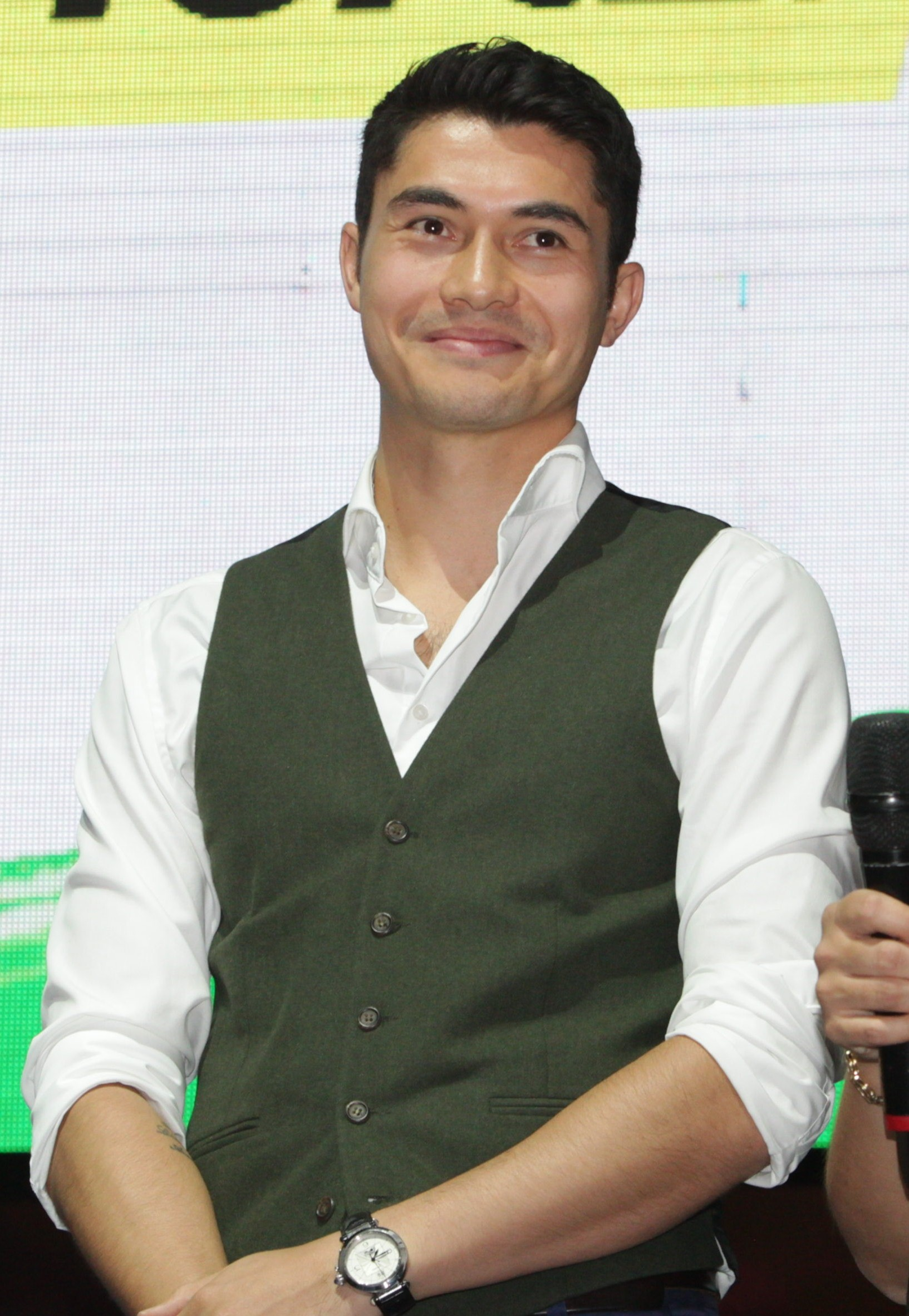 Carmen Roberts and Henry Golding presenting on the The Travel Show, (BBC) on April 24, 2014